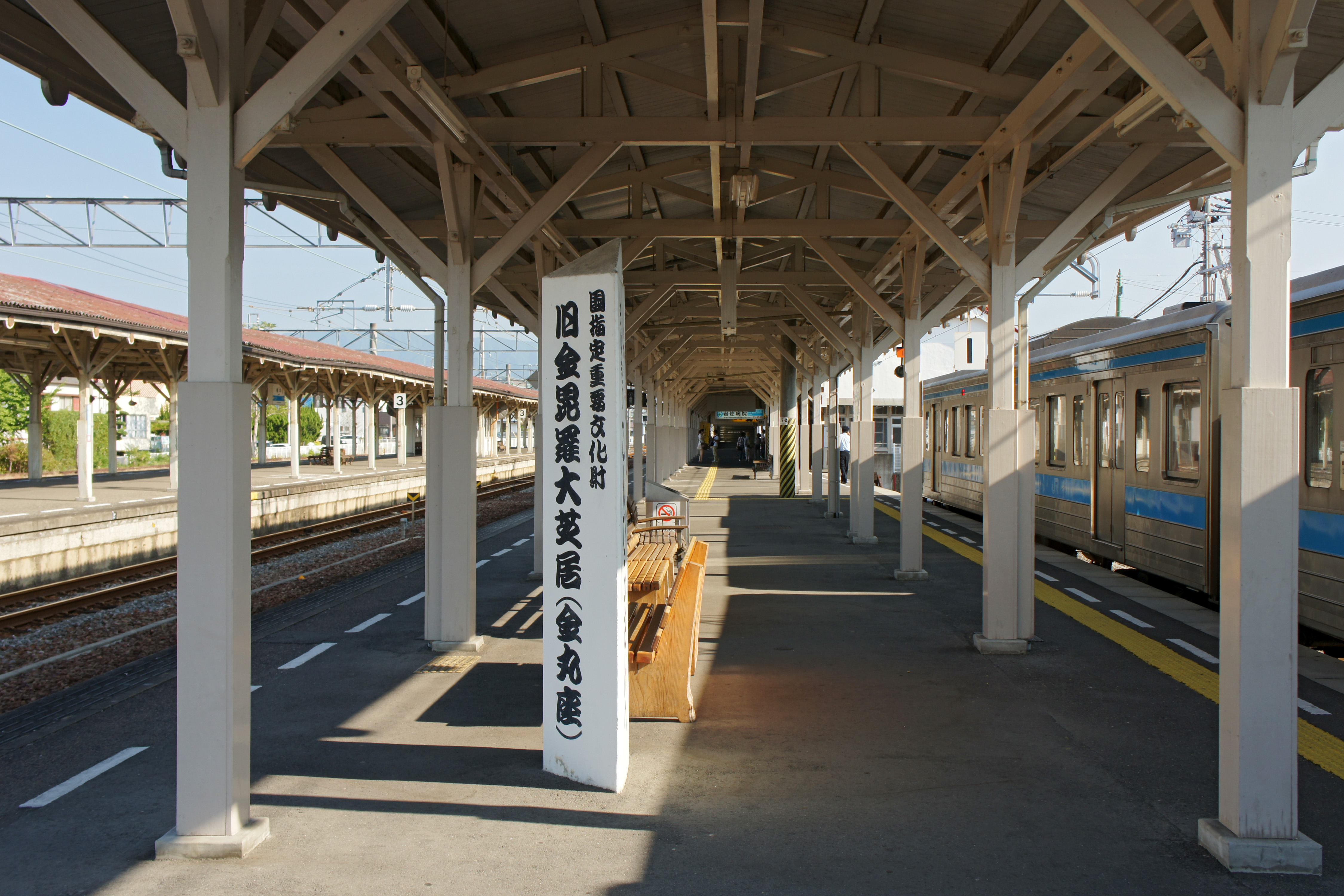 Kotohira Station in Kotohira, Kagawa prefecture, Japan.